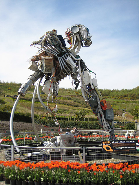 WEEE Man, Eden Project Impressive sculpture made from Waste Electrical and Electronic Equipment. Behind, the terraces of the Outdoor Biome, displaying plants which grow in our climate, in front, some of the magnificent tulip displays. This also shows the depth of the old china clay pit which has been transformed into this 'Eden'.